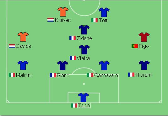 This is the line-up UEFA picked from the UEFA Team of the Tournament 2000.